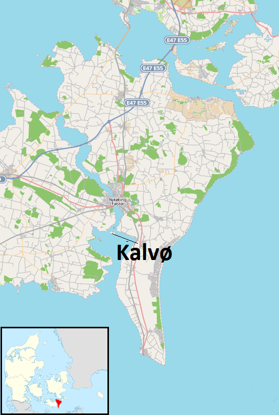 Map showing Kalvo, Falster, Denmark